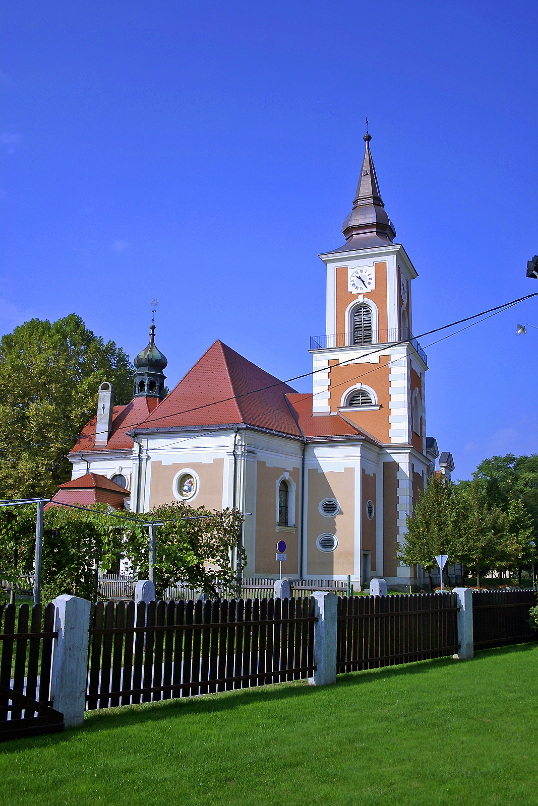 St. Ladislau's Church, Beltinci, northeastern Slovenia.